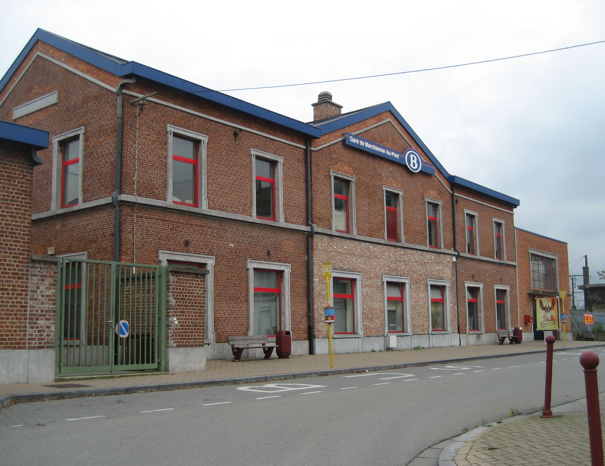 Marchienne-au-Pont train station